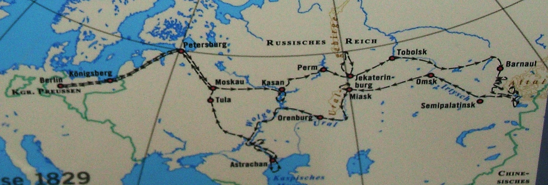 Map of the Russian expedition of Alexander von Humboldt in 1829. Text in German.